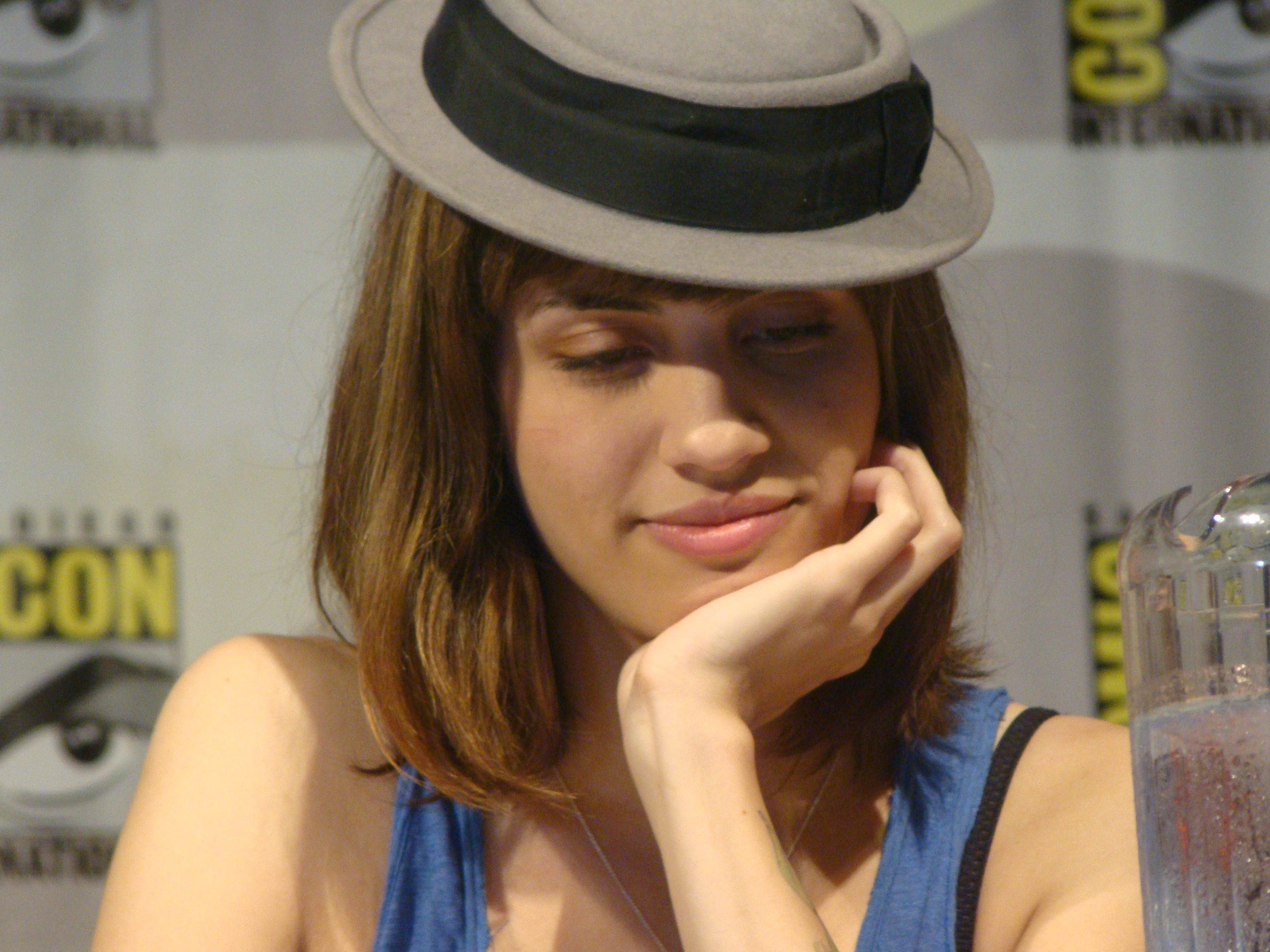 Actress Natalie Morales at the San Diego Comic Con 2009